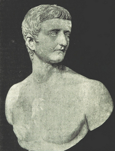 Photograph of a statue of Tiberius, housed in the Louvre. Image taken from page 264 of 'The Tragedy of the Cæsars. A study of the characters of the Cæsars of the Julian and Claudian houses. [Illustrated.]' Image taken from: Title: "The Tragedy of the Cæsars. A study of the characters of the Cæsars of the Julian and Claudian houses. [Illustrated.]" Author: Sabine Baring-Gould (28 January 1834 – 2 January 1924) Shelfmark: "British Library HMNTS 9041.d.27." Page: 264 Place of Publishing: London Date of Publishing: 1892 Publisher: Methuen & Co. Issuance: monographic Identifier: 001476310